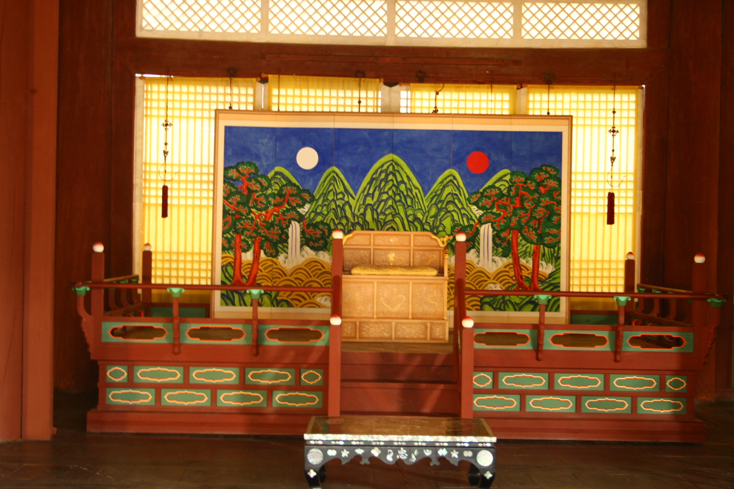 Sajeongjeon in Gyeongbokgung Palace, Seoul, South Korea